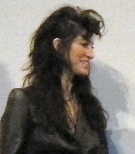 Floria Sigismondi at the SXSW 2010 screening of The Runaways.